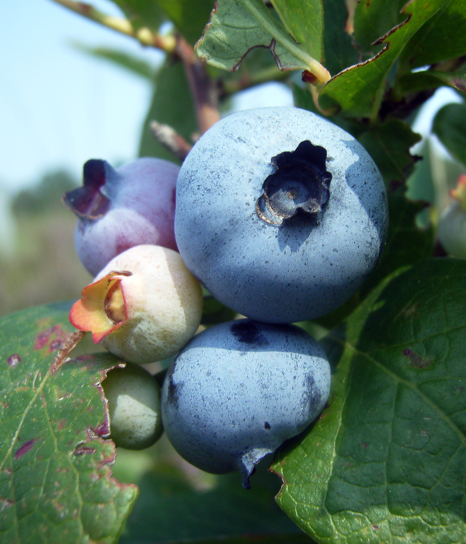 Vaccinium cf. corymbosum in a raised bog in Lower Saxony (Germany)